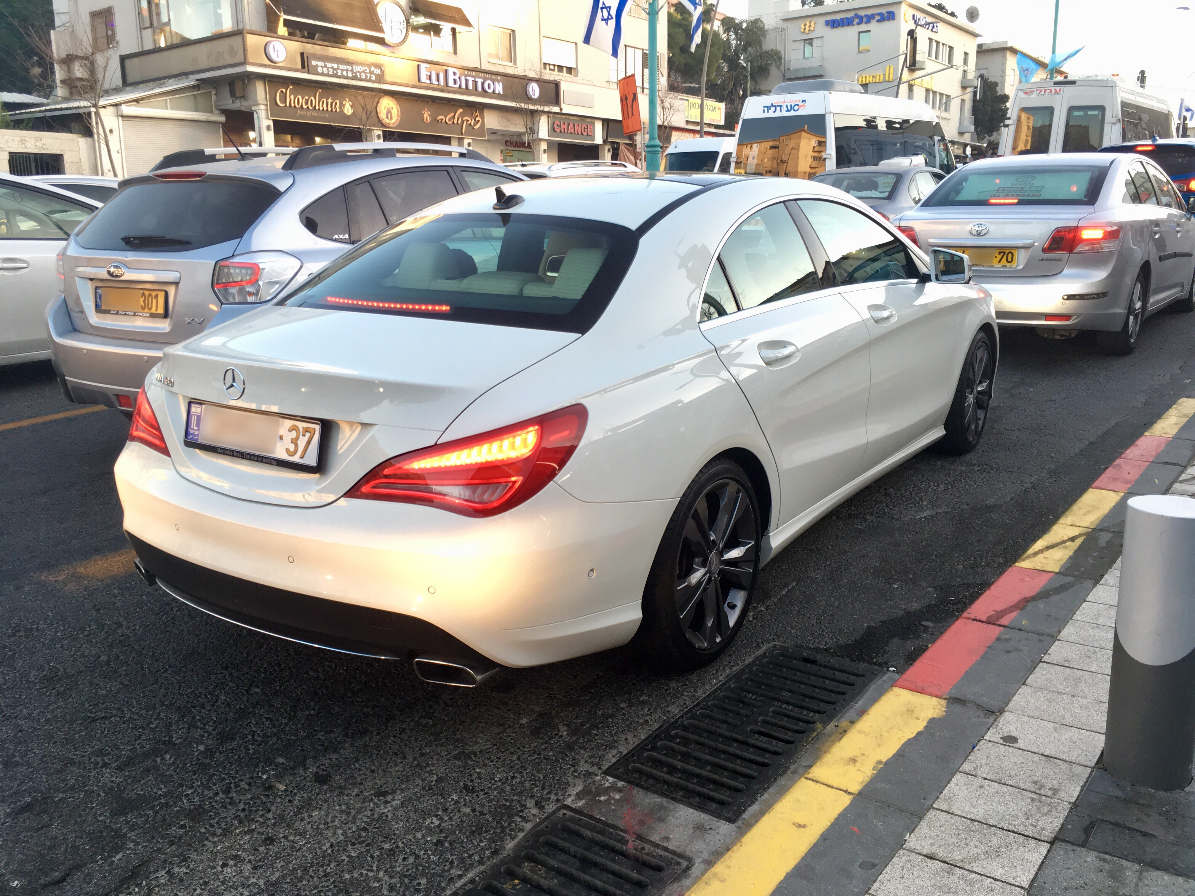 Mercedes-Benz CLA 180 in Haifa